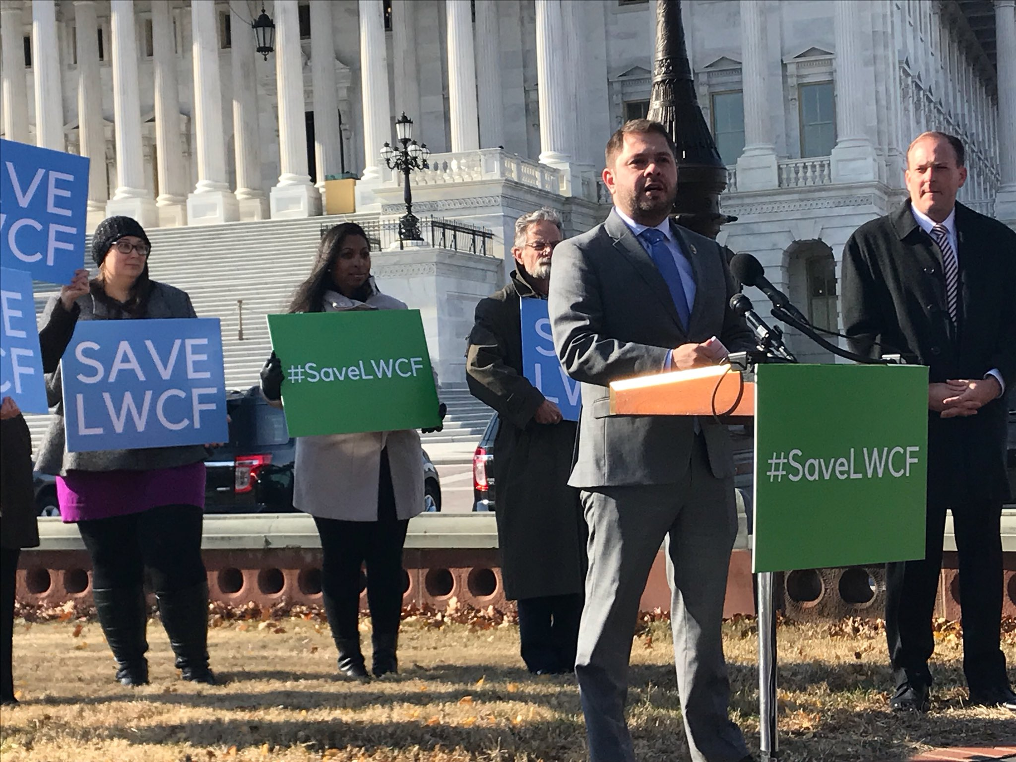 The #LWCF is America’s greatest conservation tool. With support from both chambers and on both sides of the aisle, permanent reauthorization of the LWCF should be a no-brainer.